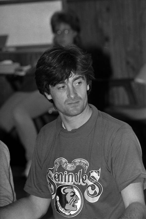 Actor Roger Rees at Florida State University - Tallahassee, Florida.